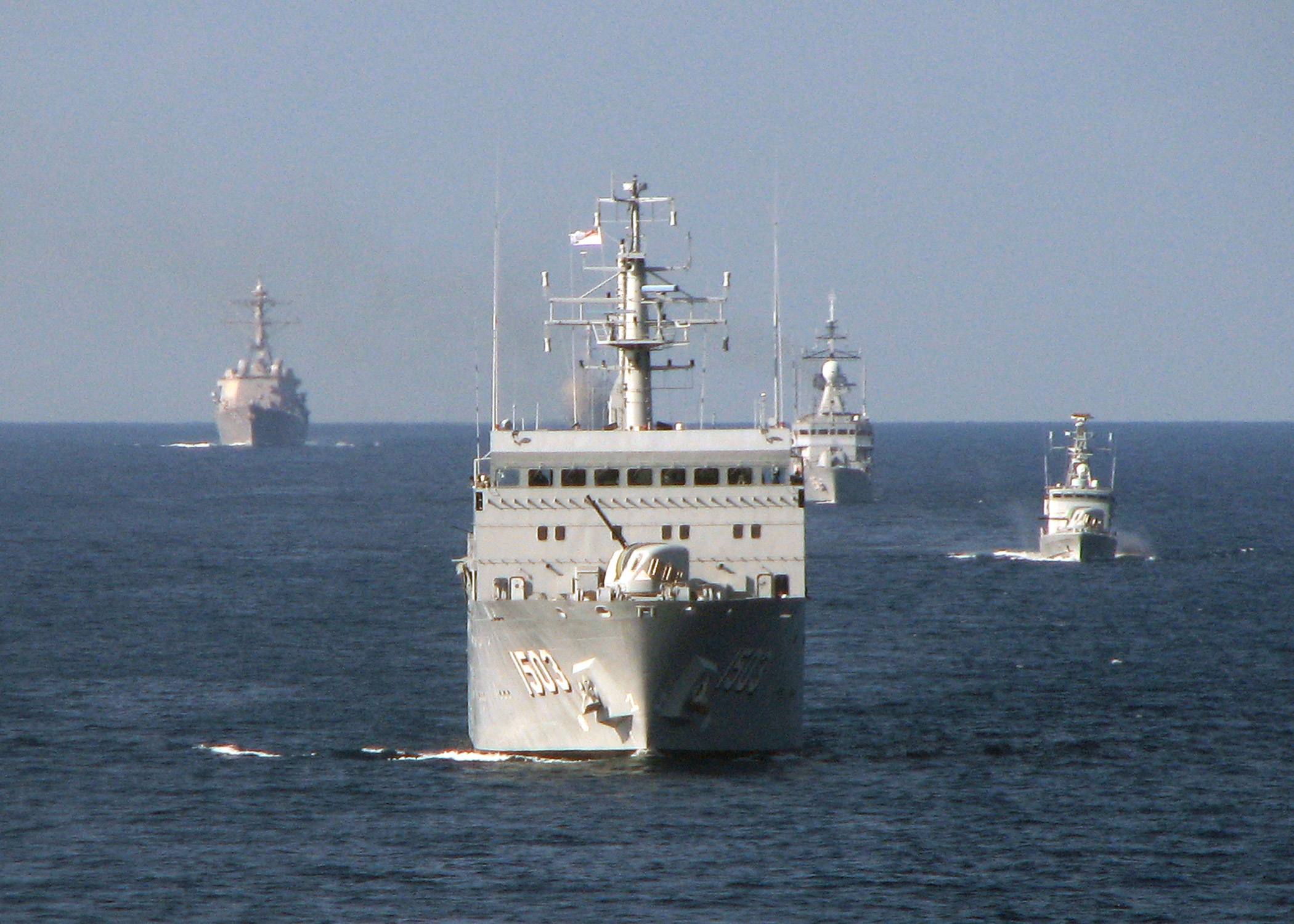 090628-N-7058E-020 SOUTH CHINA SEA (June 28, 2009) The Royal Malaysian Navy multi-role support ship KD Sri Indera Sakti maneuvers ahead of the guided-missile destroyer USS Chung-Hoon (DDG 93), RMN frigate KD Lekir and patrol vessel KD Handalan in preparation for a drone exercise during the at-sea phase of Cooperation Afloat Readiness and Training (CARAT) Malaysia 2009.